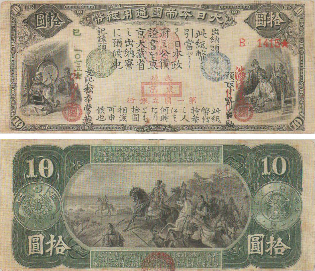 Japanese 1st National Bank Note(1873)